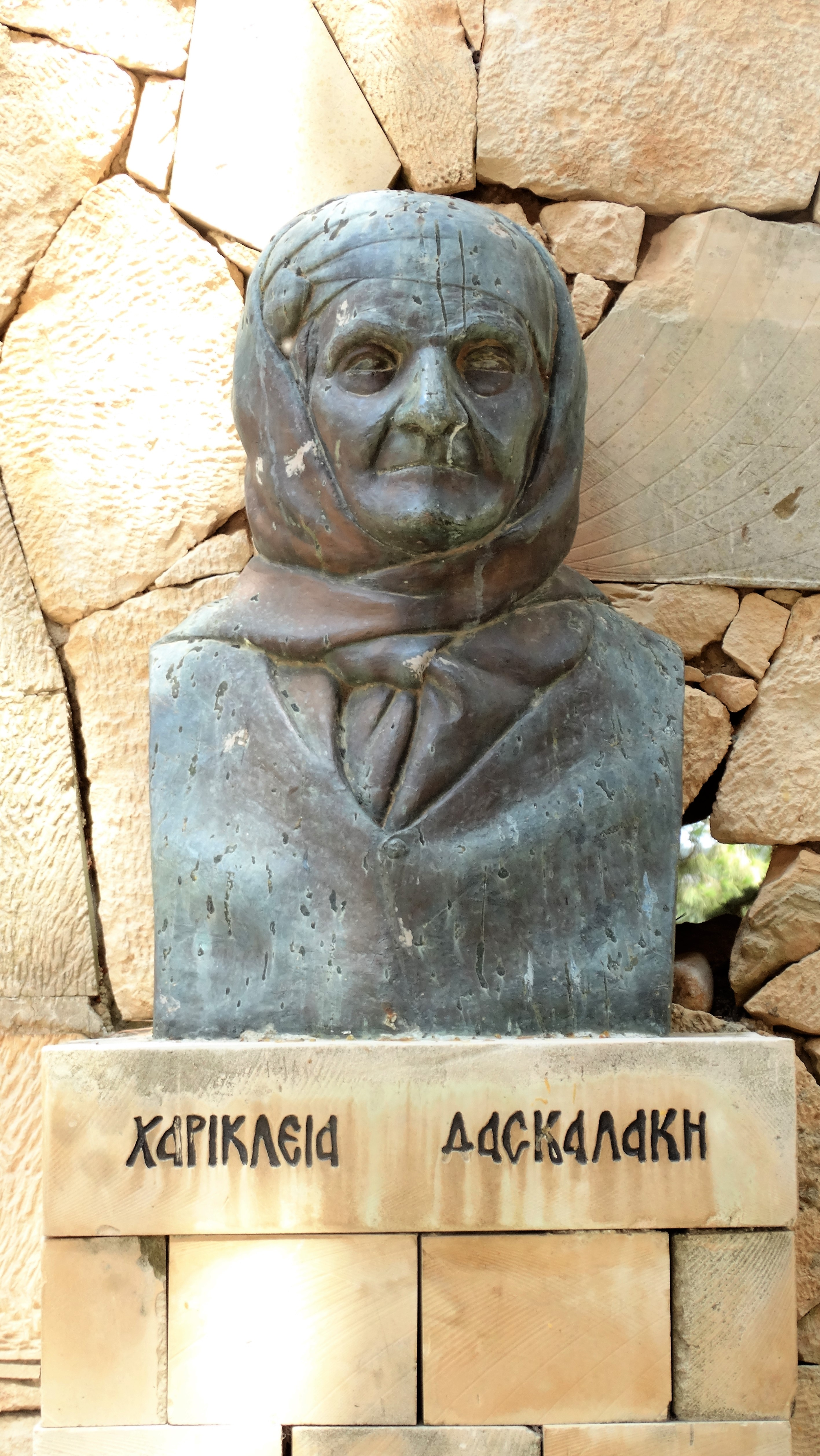 Charikleia Daskalaki (Χαρίκλεια Δασκαλάκη), leader of the women in charge of water and munitions supplies during the Turkish assault against the Arkadi Monastery, in Crete (1866).